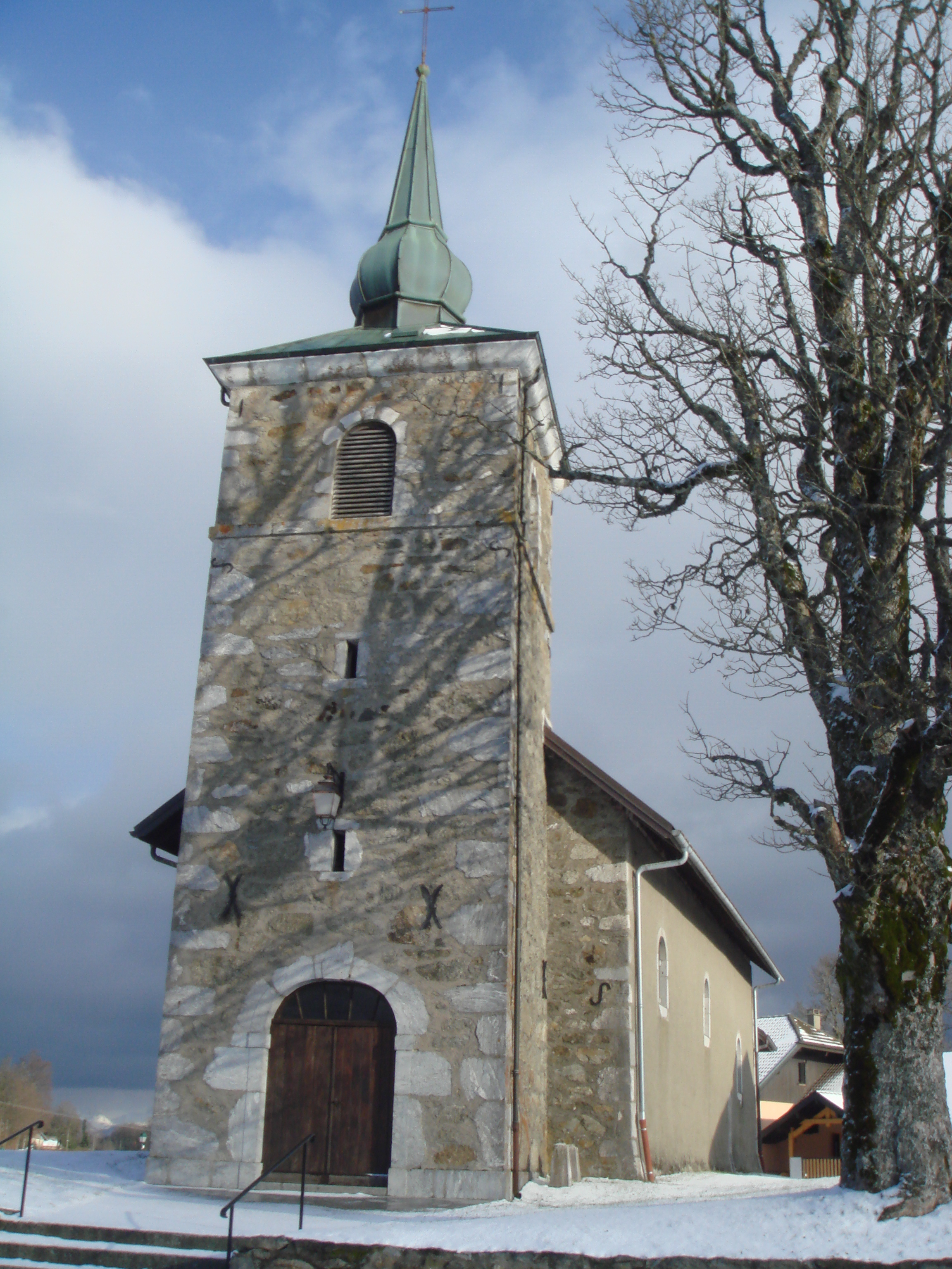 West entry-point of the village, coming from Arbusigny or Evires on the D102